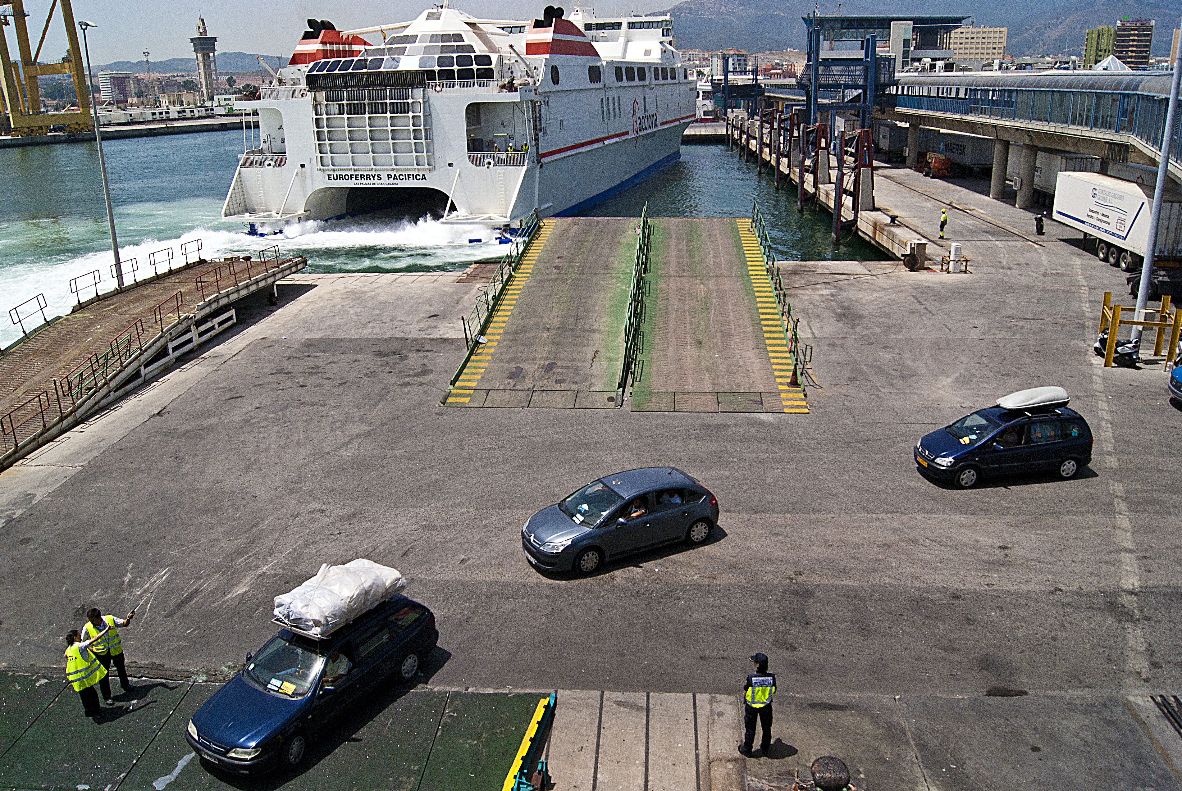 During an OPE (Crossing Strait Operation), in the port of Algeciras cars are waiting to board a Balearia ferry to Sebta, while in the next dock is docking an Acciona ferry.